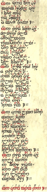 Tengwar Quenya markirya